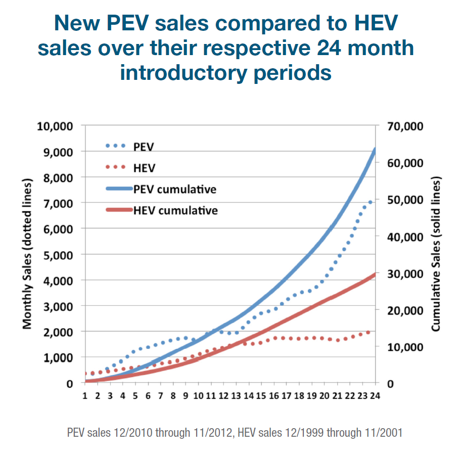 New PEV sales compared to HEV sales in the United States over their respective 24 month introductory periods. EV Everywhere Grand Challenge Blueprint, page 5.